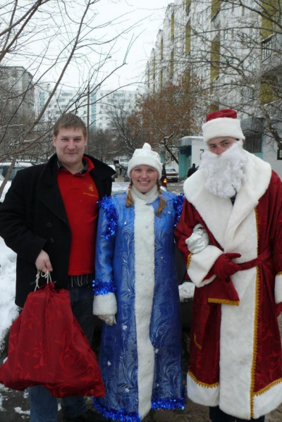 Подарим детям Новый Год